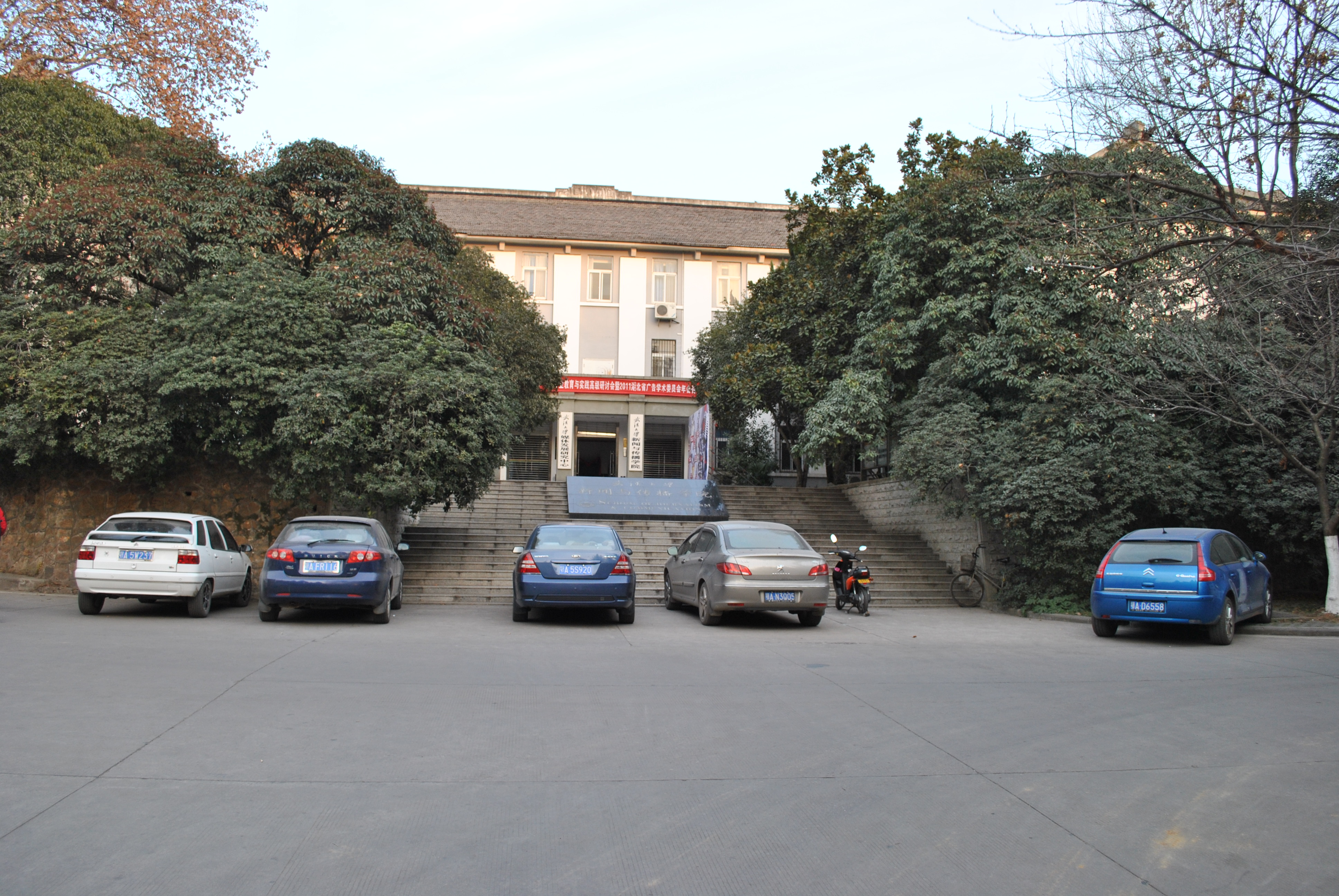 school of communications and journalism of Wuhan University